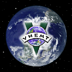 VHEMT's logo features the letter "V" (for Voluntary) and an inverted Earth. VHEMT states that the inverted Earth represents the radical shift in human direction the movement seeks, and notes that upside down emblems are often used as symbols of distress.Symbolism of the logo for the Voluntary Human Extinction Movement. Licensed as Creative Commons Attribution 3.0 United States License at .